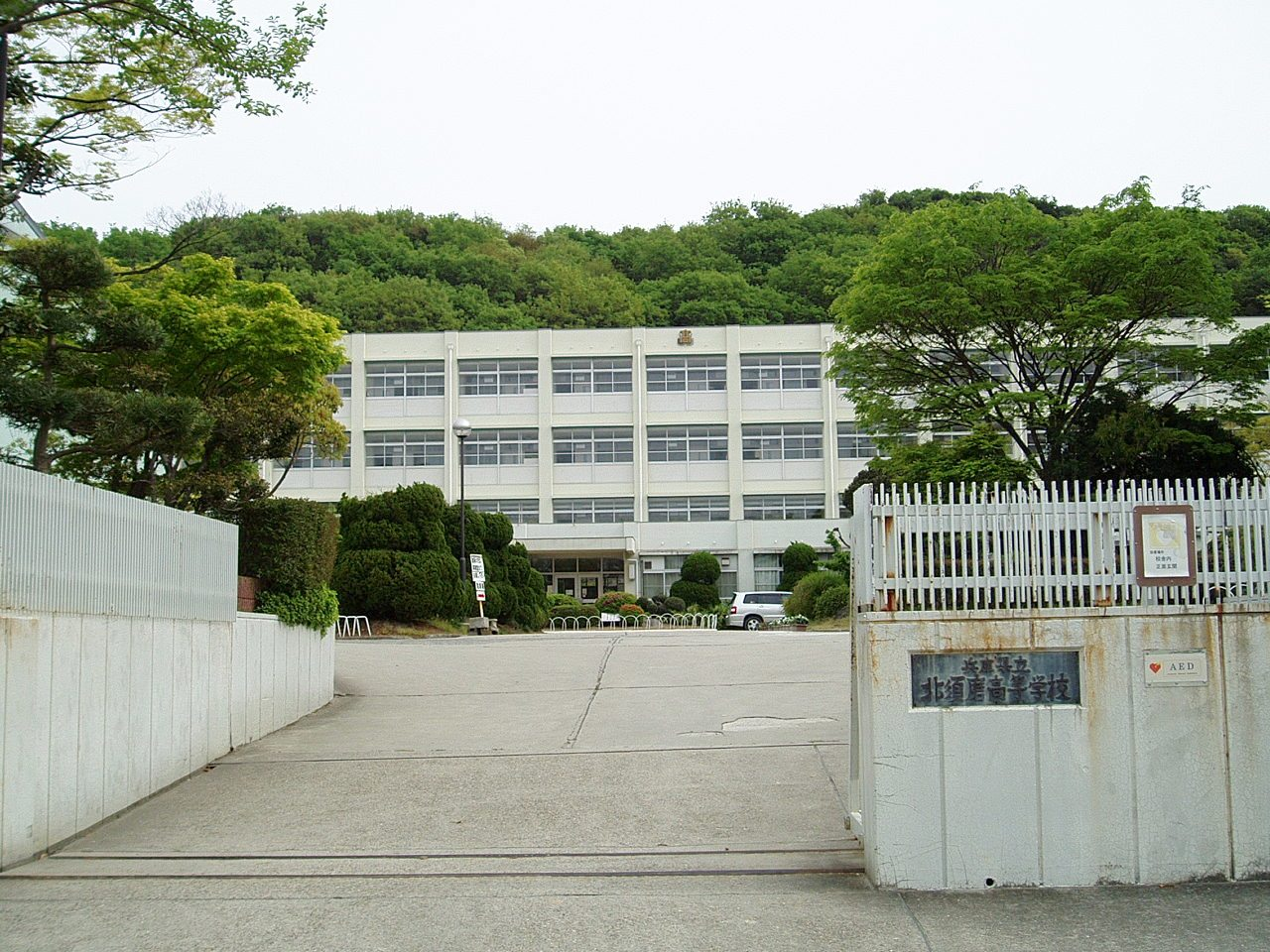 The main entrance to Hyogo Prefectural Kitasuma High School located in Tomogaoka, Suma-ku, Kobe, Hyogo Pref., Japan.